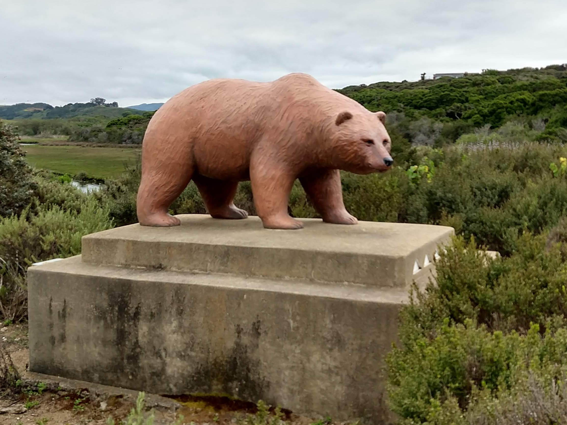 One of two Los Osos Bear statues. This one is seen on the way into town, next to the South Bay Blvd. bridge over Los Osos Creek. Photo taken May 2019.